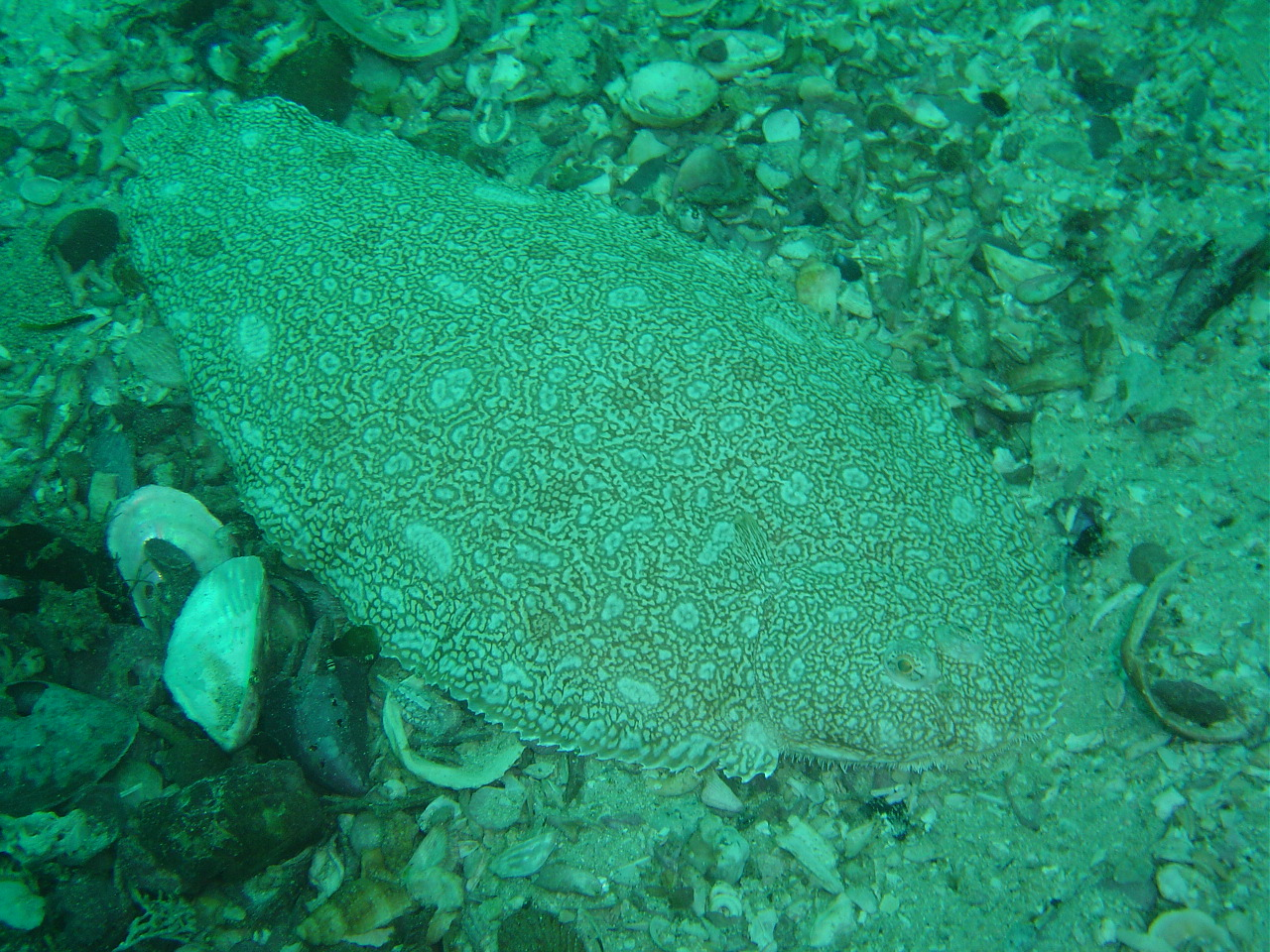 Simon's Town, Cape Peninsula.